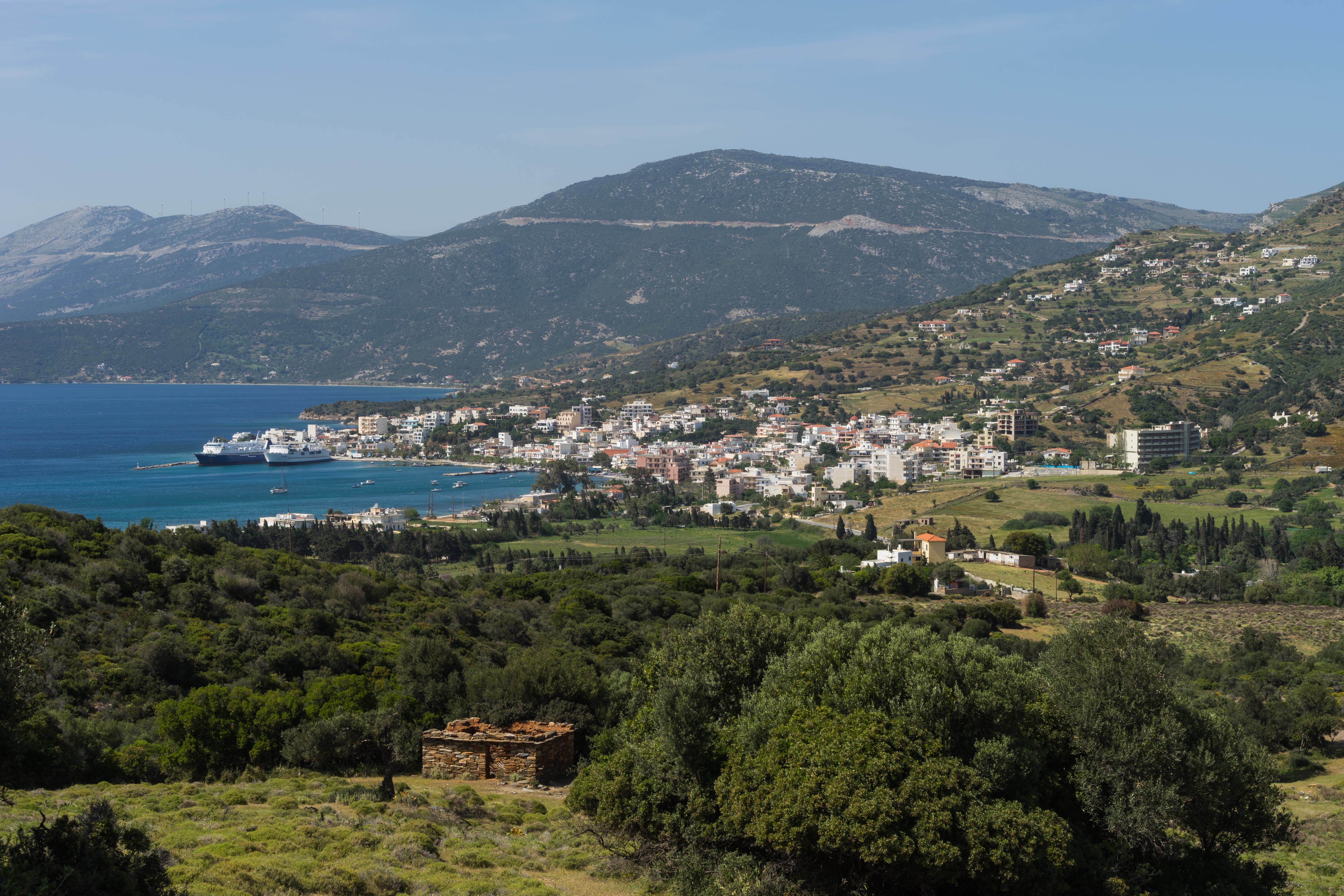 The village of Marmari, south Euboea, Greece.